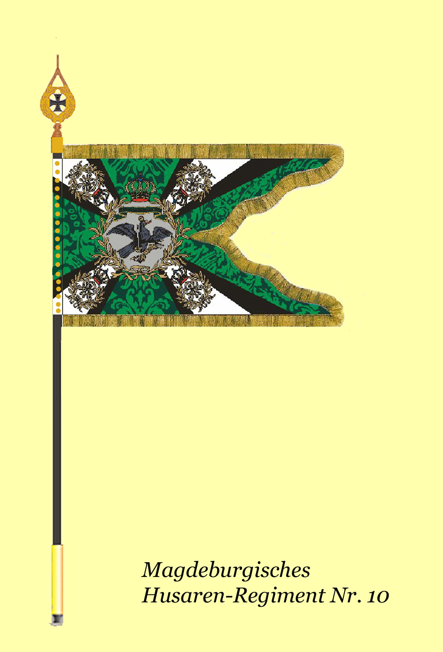 Colors of the royal prussian 10th Regiment of Hussars